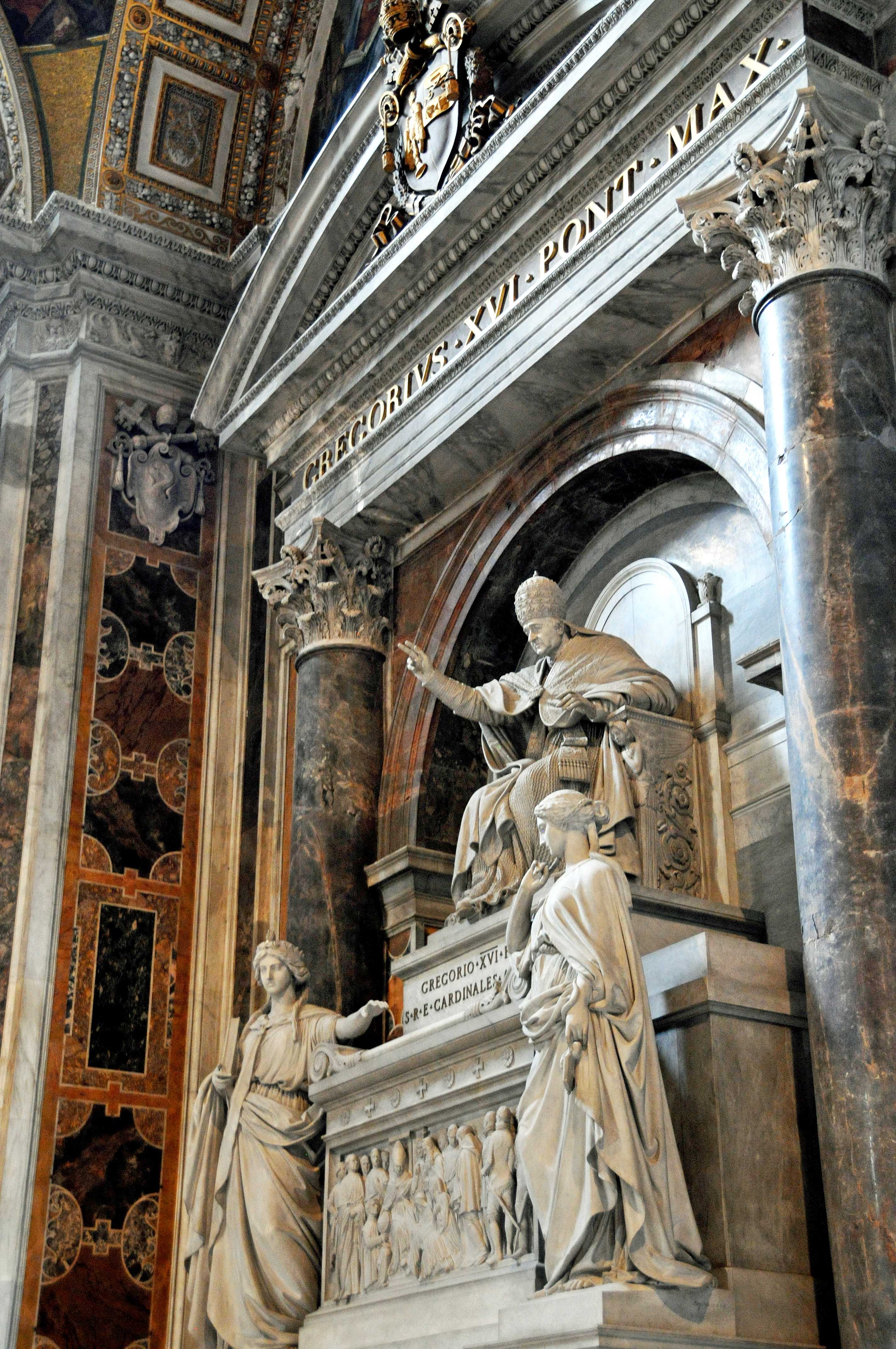 There are over 100 tombs within St. Peter's Basilica.